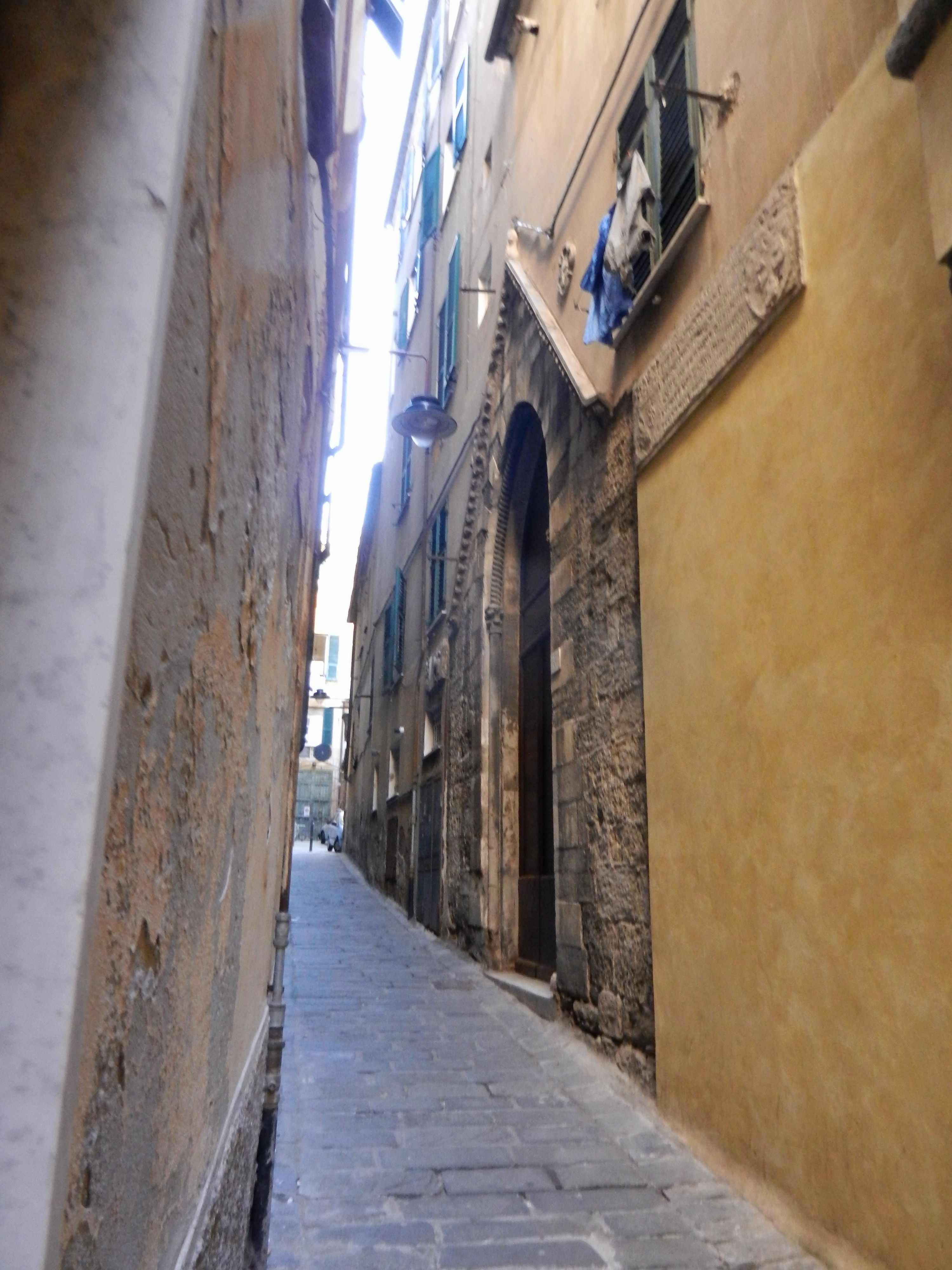 Genoa, Italy, quarter of Prè, St. Antonio lane